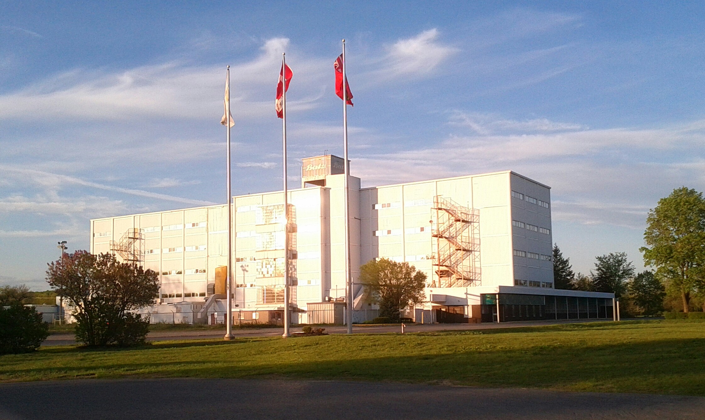 View from west of old Bata factory in Batawa, Ontario.